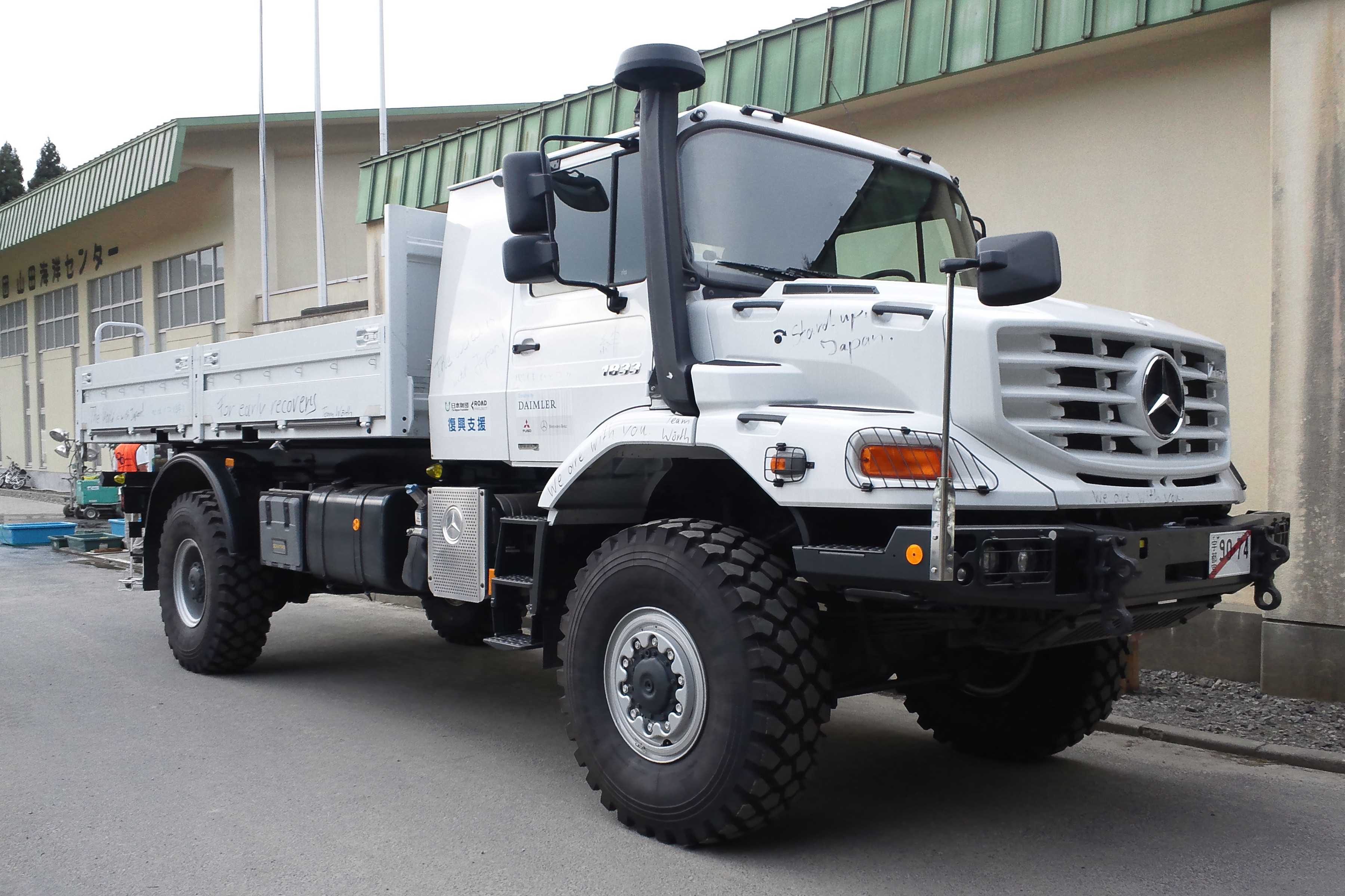 Mercedes-Benz Zetros as a relief vehicle for the Great East Japan Earthquake in 2011, stationed in Yamada Town, Iwate Prefecture